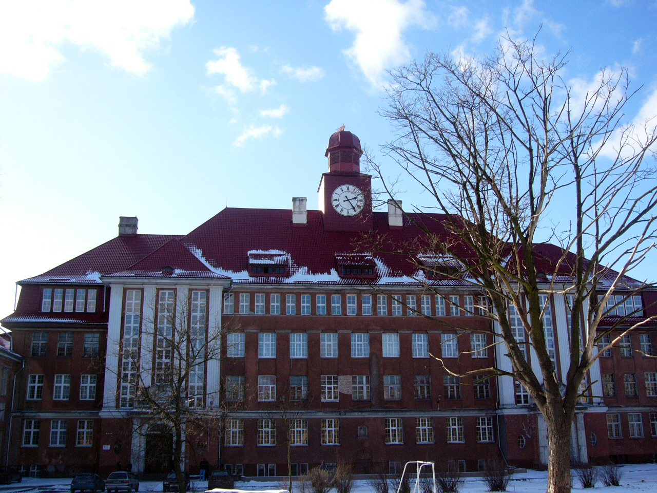 Immanuel Kant State University of Russia. Building of History and Economics department, Psychology and Social Work dep. and Physical Training and Sport dep.